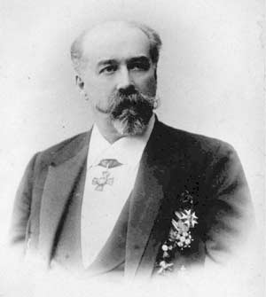 Alexander v. Poehl (1850-1908)